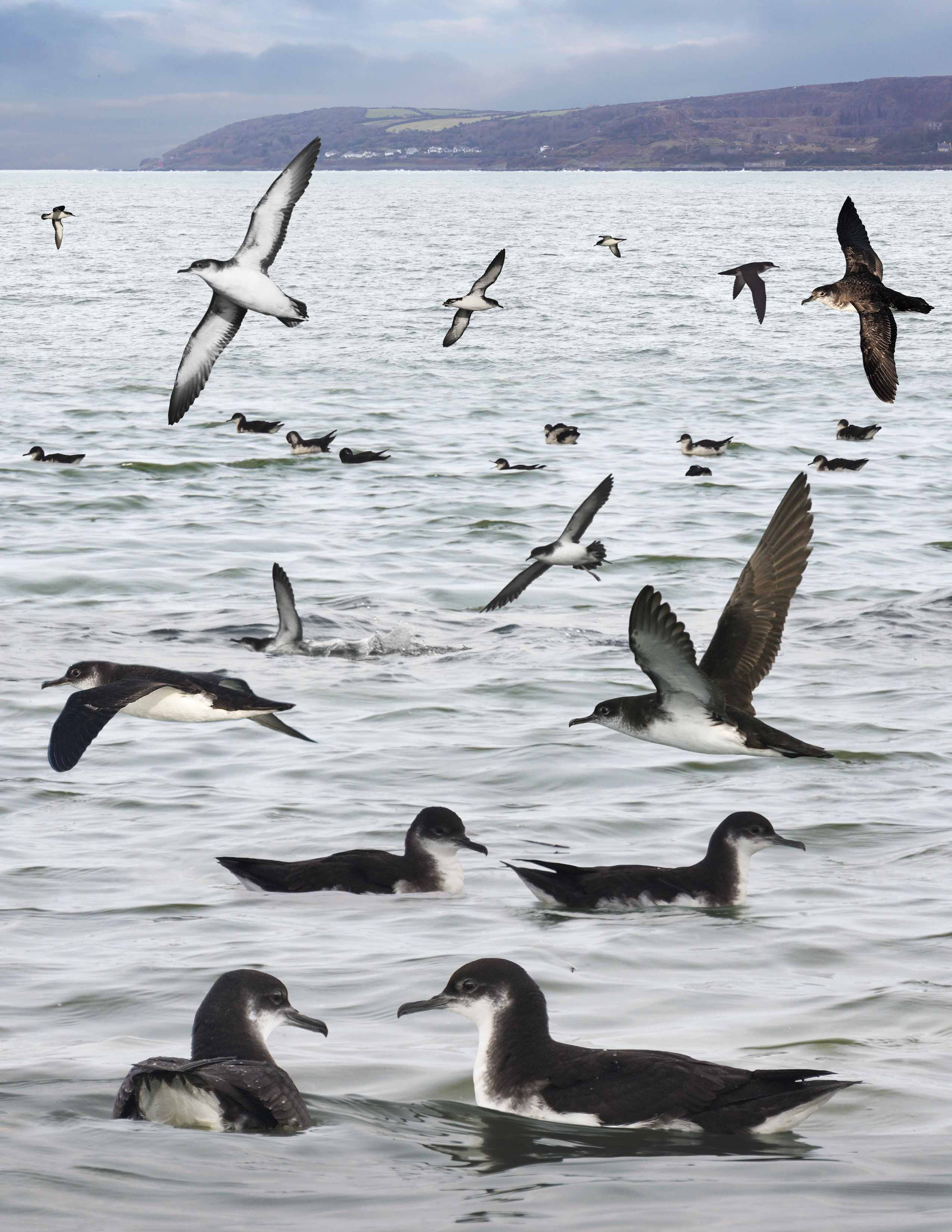 Manx Shearwater from the Crossley ID Guide Britain and Ireland